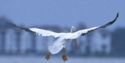 American white pelican public domain from USFWA Title: White Pelicans at Pelican Island NWR Creator: Gentry, George Source: WV-PelicanIsland-1376 Publisher: U.S. Fish and Wildlife Service Contributor: NATIONAL CONSERVATION TRAINING CENTER-PUBLICATIONS AND TRAINING MATERIALS Rights: (public domain) Subject: Pelican Island National Wildlife Refuge, Florida Abstract: White pelicans gather at Pelican Island National Wildlife Refuge. Available: March 08 2003 Issued: March 08 2003 Modified: May 10 2004